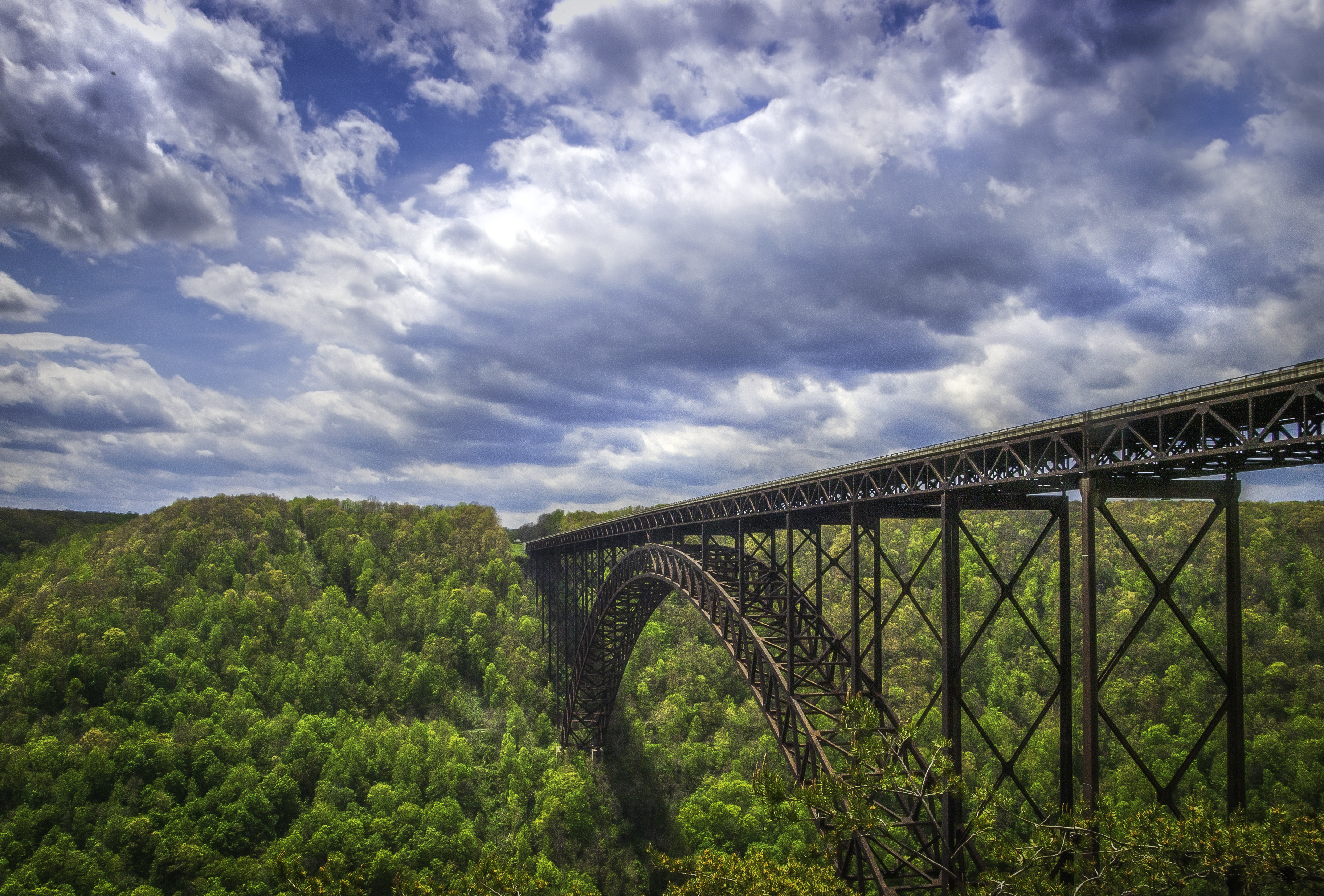 View of the New River Gorge Bridge from the overlook at the north end of the New River Gorge (facing southwards), near Fayetteville, West Virginia. Taken May 5, 2013 using an Olympus E-3 DSLR by Shawn Ullerup.